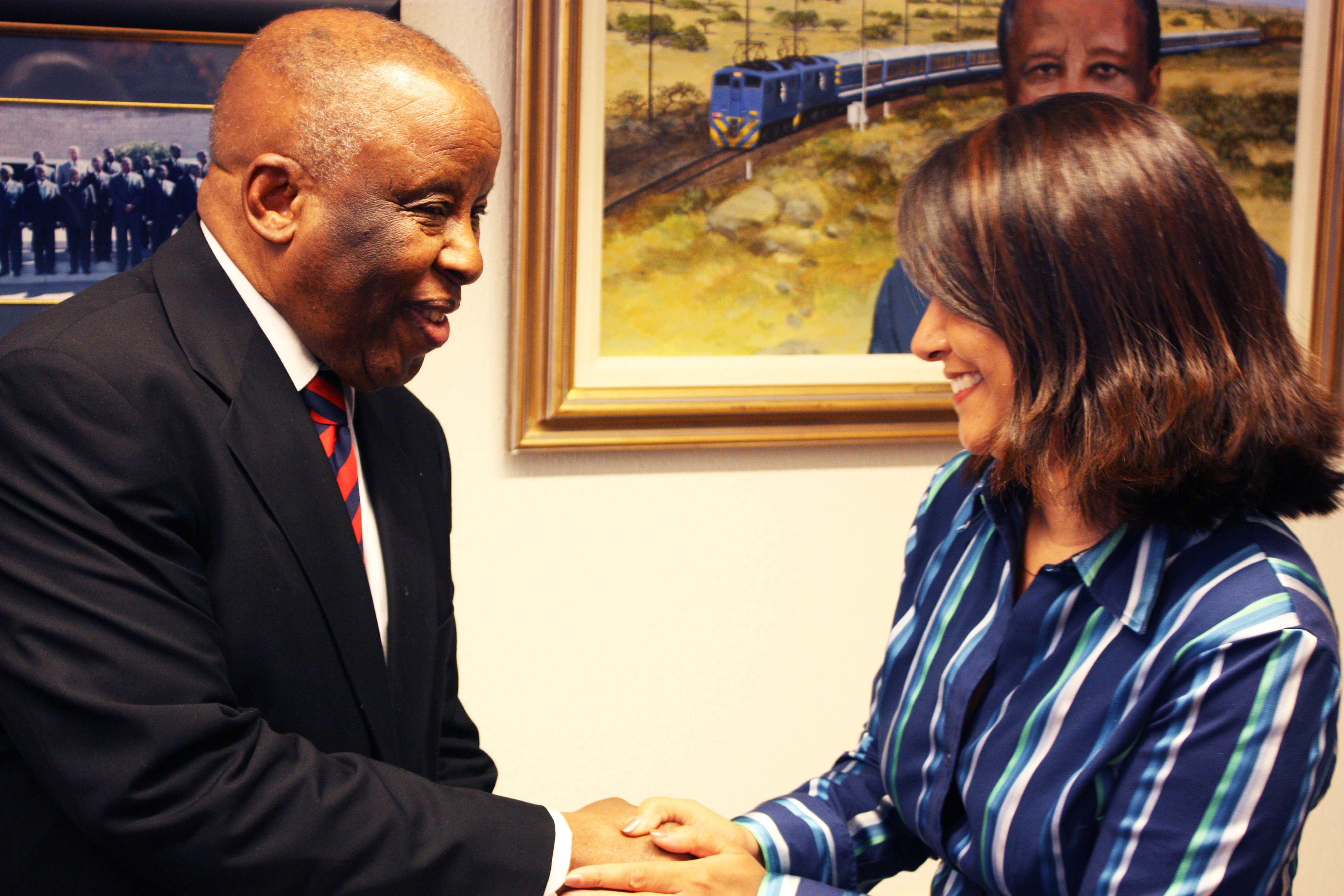 H.E. Festus Mogae, former president of Botswana, meets with TeachAIDS founder and CEO, Dr. Piya Sorcar, at his compound in Gaborone prior to recording a special "Message of Hope" for the youth of his country, which was incorporated into the final Botswana versions of the TeachAIDS software. Photo credit: TeachAIDS